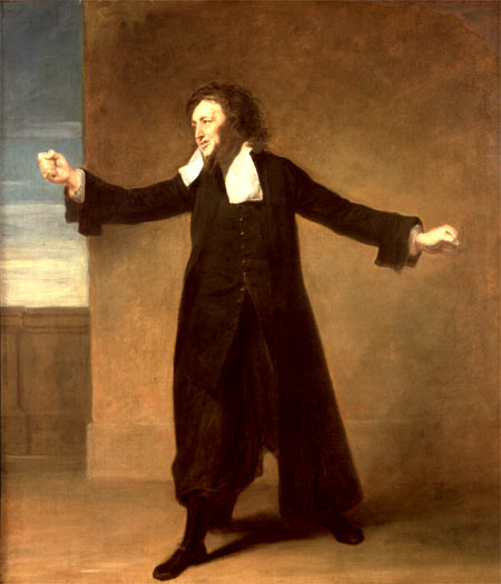 English actor Charles Macklin as Shylock in Shakespeare's The Merchant of Venice at Covent Garden, London, 1767-68